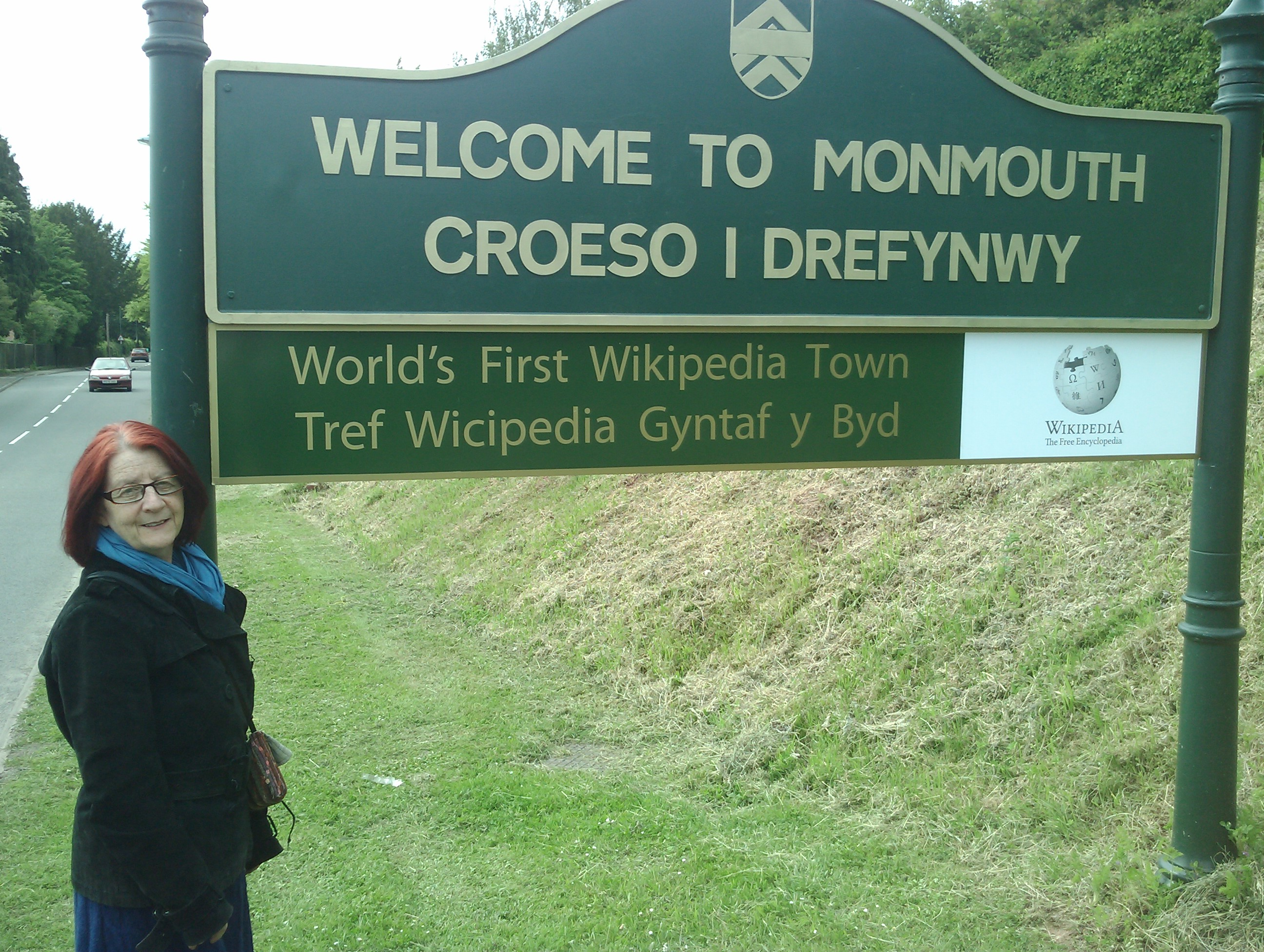 Worlds First Wikipedia Town Monmouthpedia Monmouth today. Marianne Bamkin in picture